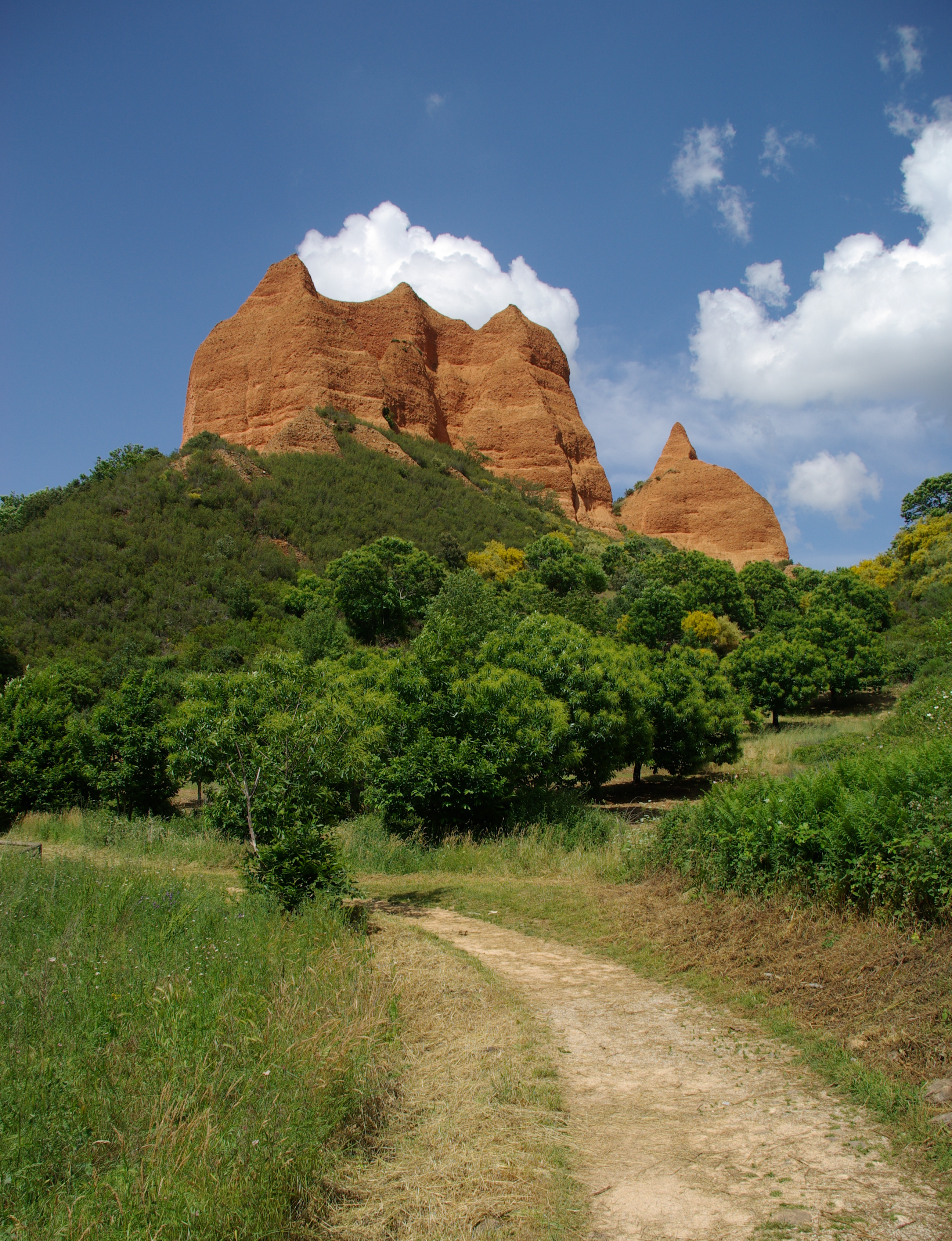 Las Médulas (Galician: As Médulas) is a historic mining site near the town of Ponferrada in the region of El Bierzo (province of León, Castile and León, Spain), which used to be the most important gold mine in the Roman Empire. Las Médulas Cultural Landscape is listed by the UNESCO as one of the World Heritage Sites. Advanced aerial surveys conducted in 2014 using LIDAR have confirmed the wide extent of the Roman-era works.